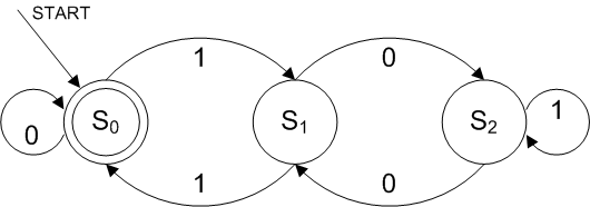 Example of a DFA that accepts binary numbers that are multiplies of 3.